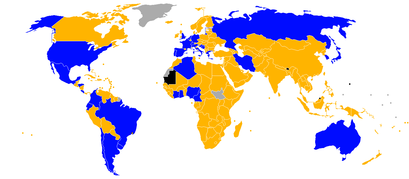 Status of countries with respect to 2014 FIFA World Cup: Team qualified Team eliminated Team did not enter World Cup Country was not a FIFA member at the start of qualification